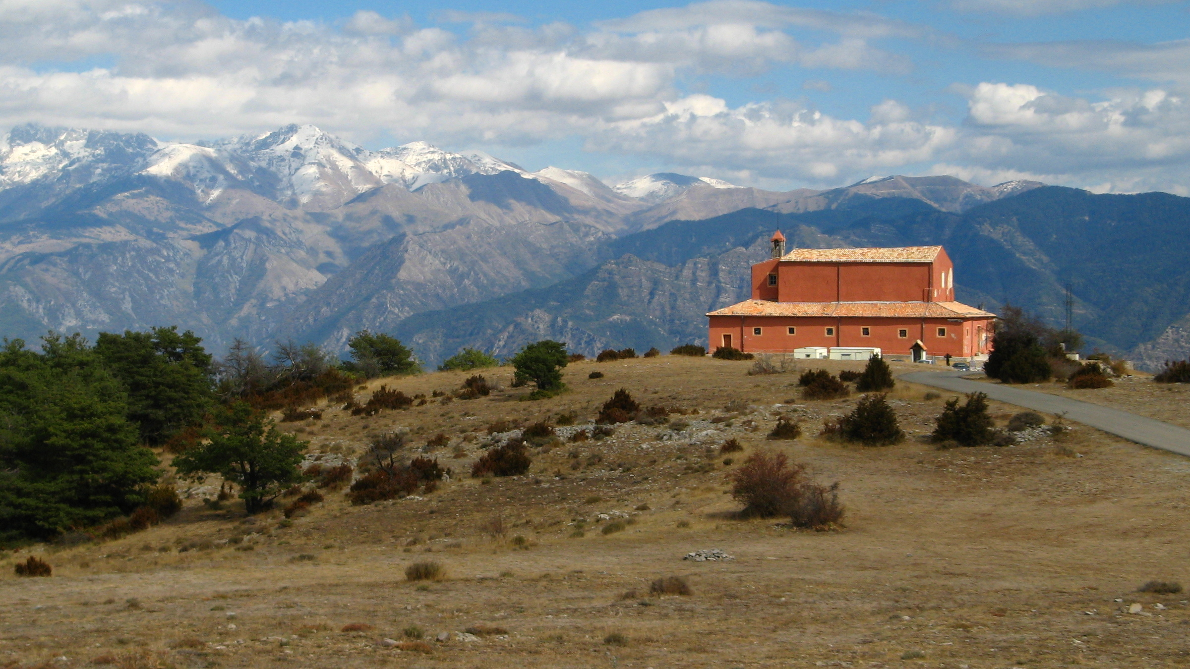 Sanctuaire de la Madone d'Utelle (Alpes Maritimes, France)